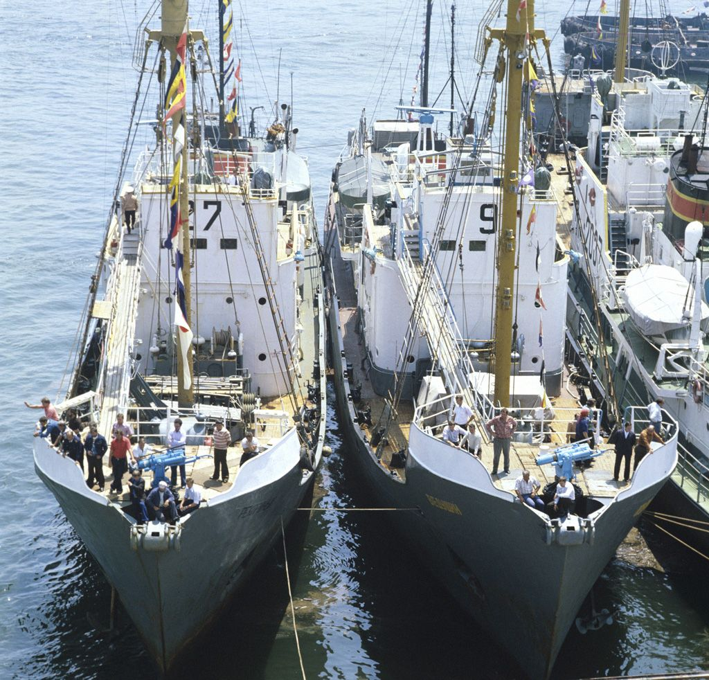 “Whaling ships”. Whaling ships after a fishing trip.